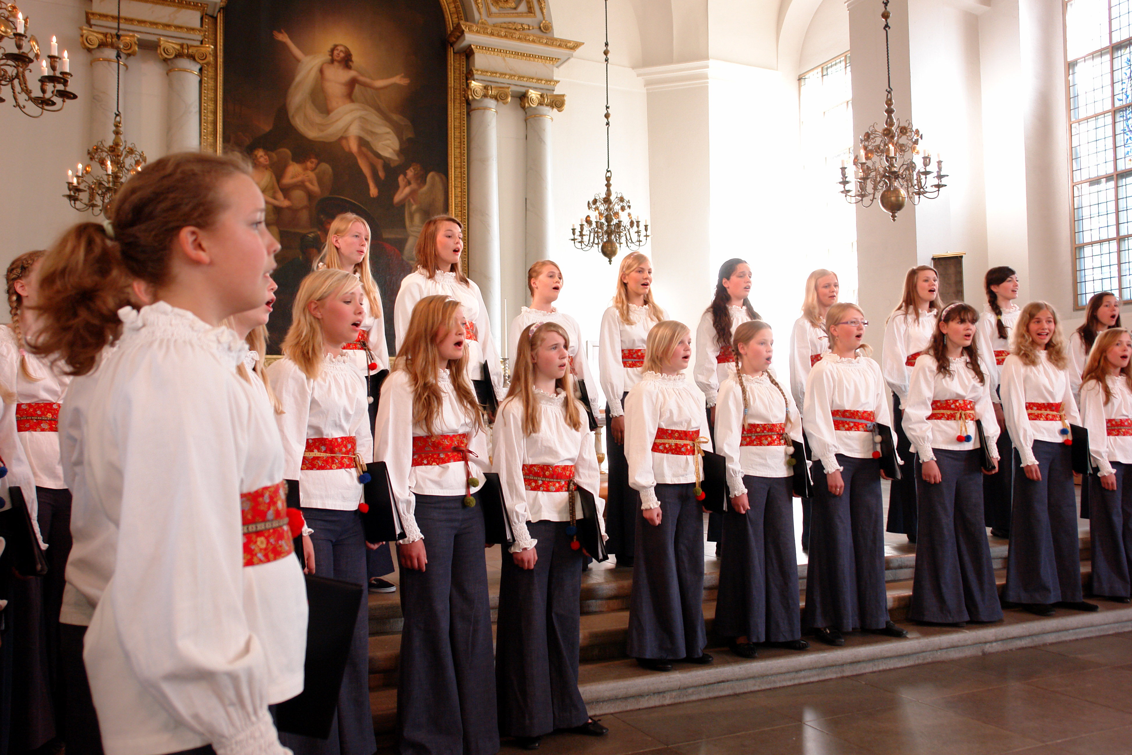 Adolf Fredrik's Girls Choir, Stockholm, Sweden (Adolf Fredriks Flickkör). Concert in Kungsholms kyrka, Stockholm, June 6, 2007